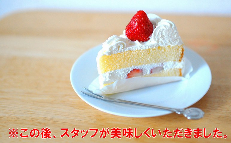 Strawberry Shortcake (and telop)